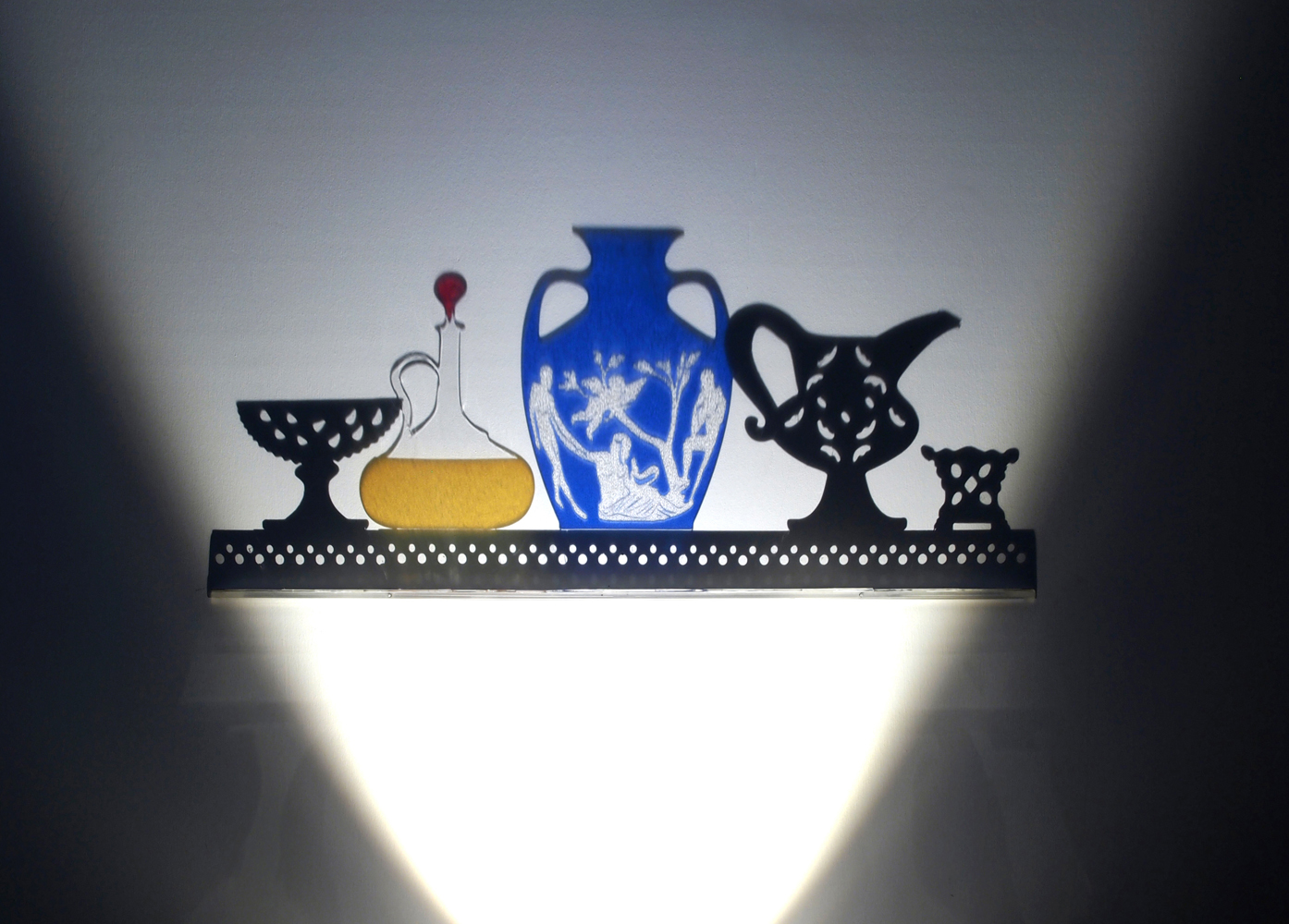 Ombre è un'opera in ceramica e installazione luminosa dell'artista italiana Antonella Cimatti (2015).